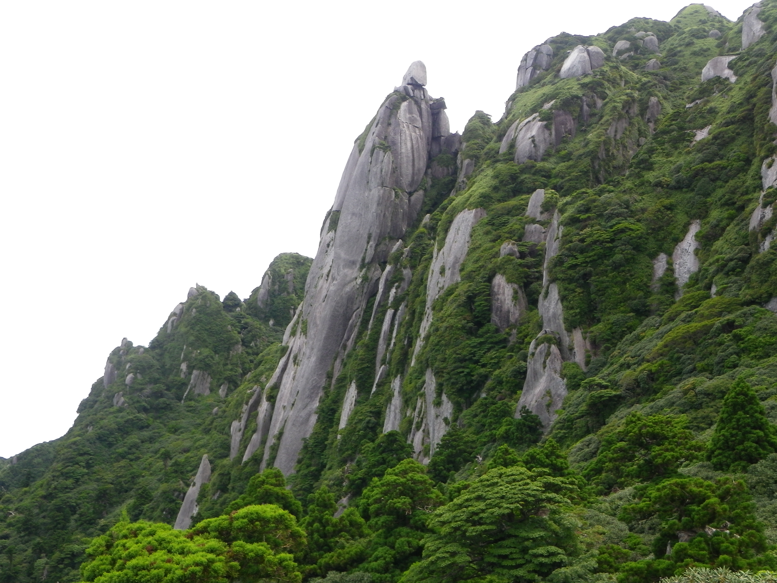 Rosoku-iwa rock at Mount Nagata